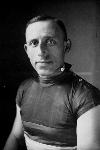 Angelo De Martini's portrait